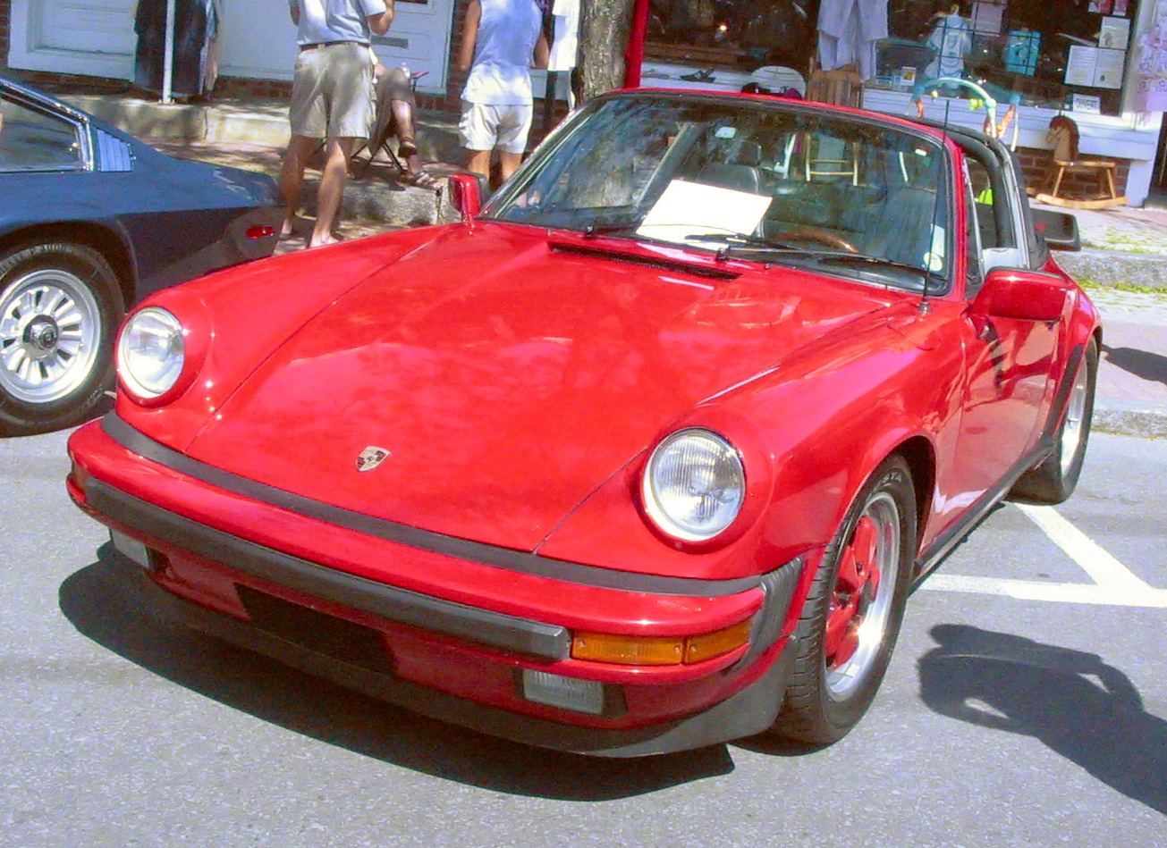 1974 Porsche 911 Carrera photographed in Pointe-Claire, Quebec, Canada at the Auto classique Pointe-Claire 2011.